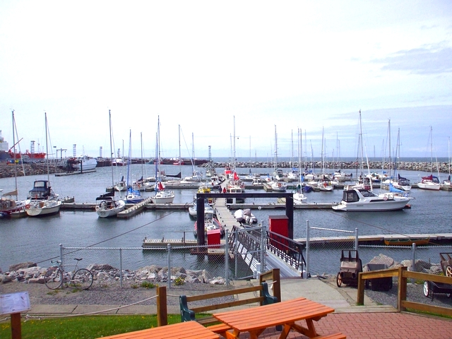 Rimouski-Est marina to Rimouski harbour